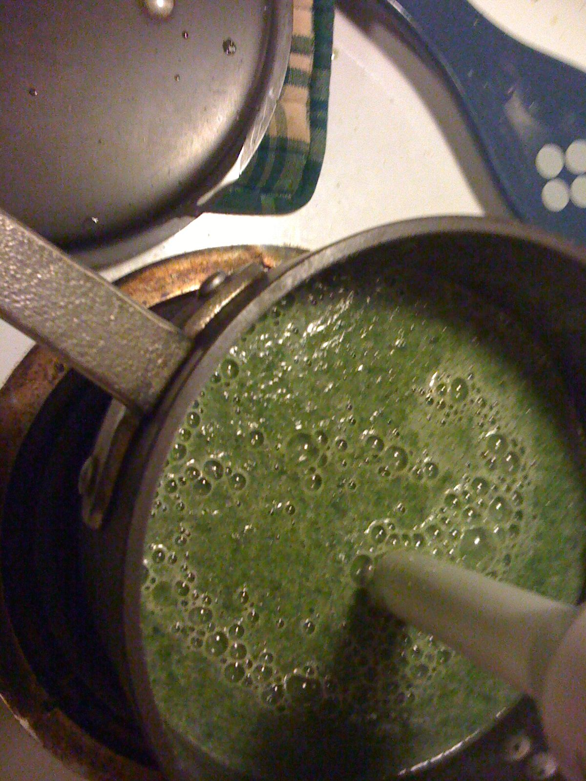 Cream of spinach soup